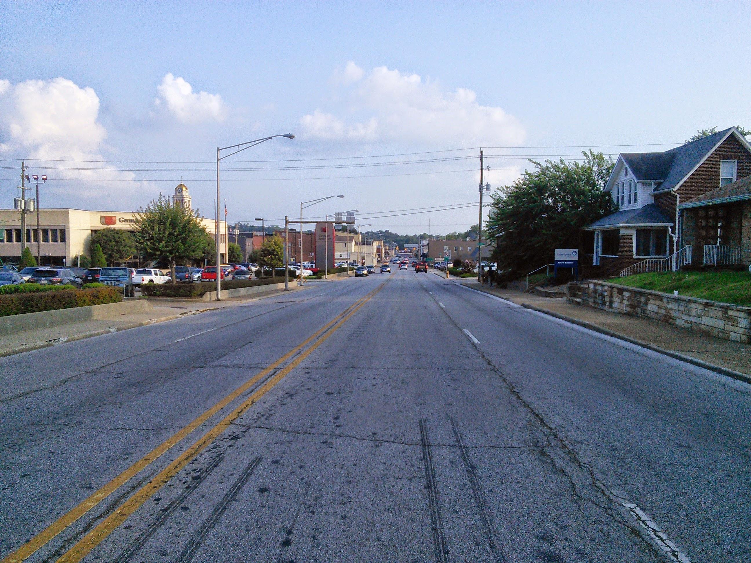 Looking Southbound on Newton Street in Jasper, Indiana.